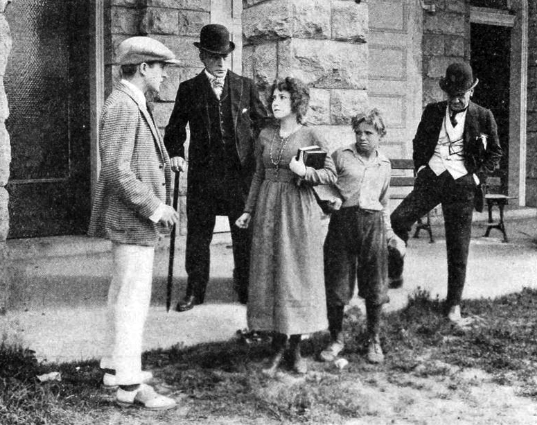 Bessie Love in The Midlanders (1920), directed by Joseph De Grasse and Ida May Park